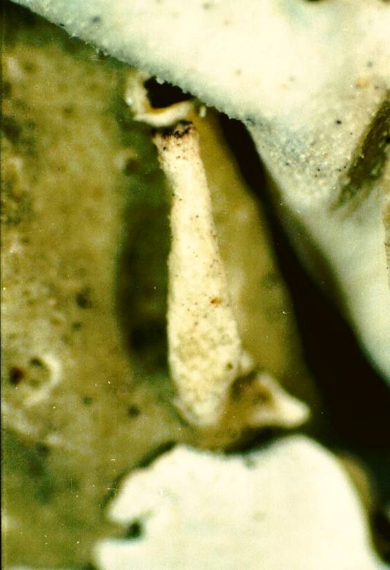 Cladonia turgida Hoffm., 1796 (photograph of a herbarium specimen taken through a dissecting microscope (x30) showing a podetium and lower surface of squamules) Loose on soil on acid rock outcrop in conifer woods at the end of Trail's End Road, near shore of Lake Superior, S of confluence with the Montreal River, Ontario, Canada; collected and identified by Richard E. Riefner (No. 81-316, 27 Jun 1981); specimen is now in the Lichen Herbarium of the New York Botanical Garden.